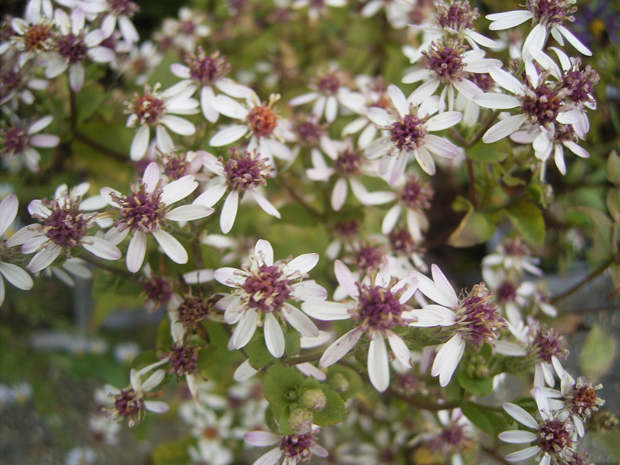 This photo shows Eurybia divaricata